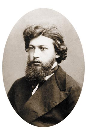 Egor Egorovich (Georg) Wagner (1849-1903), russian chemist